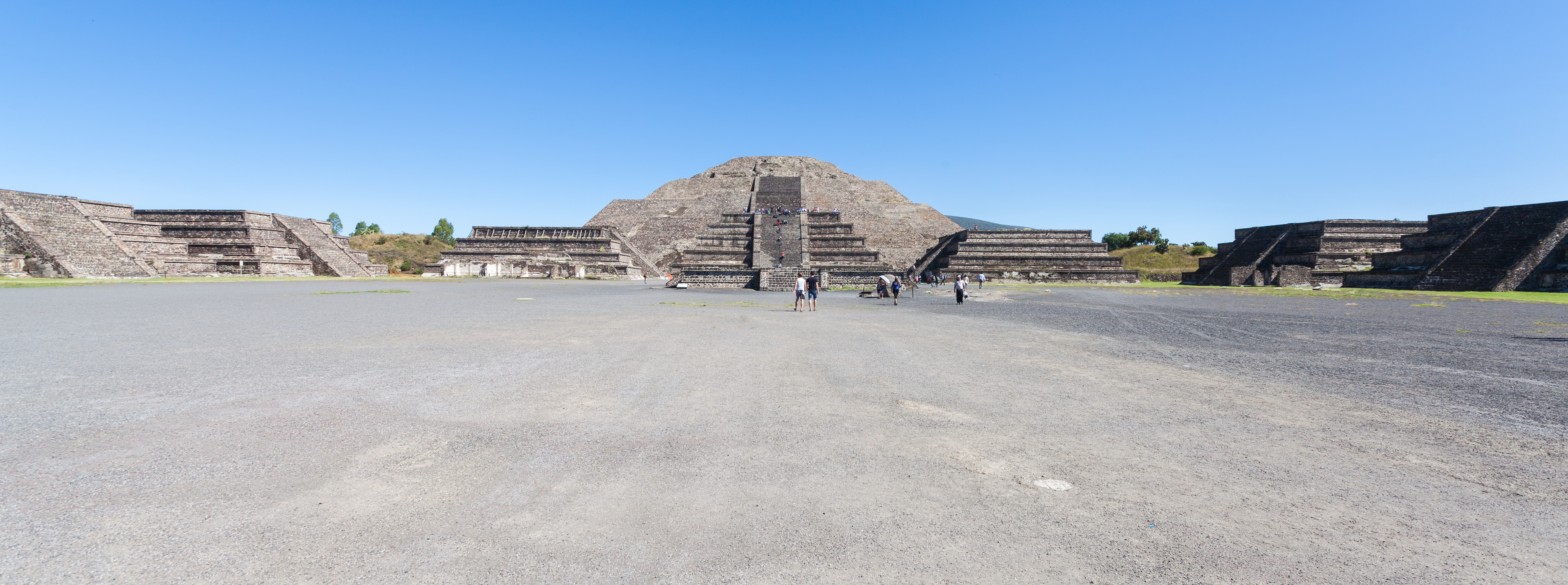 Pyramid of the Moon, Teotihuacán, Mexico